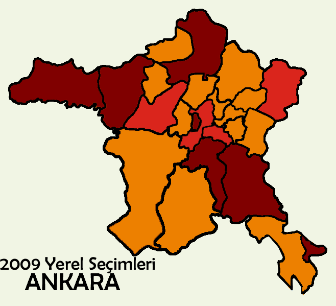 2009 Turkey local election Ankara Results